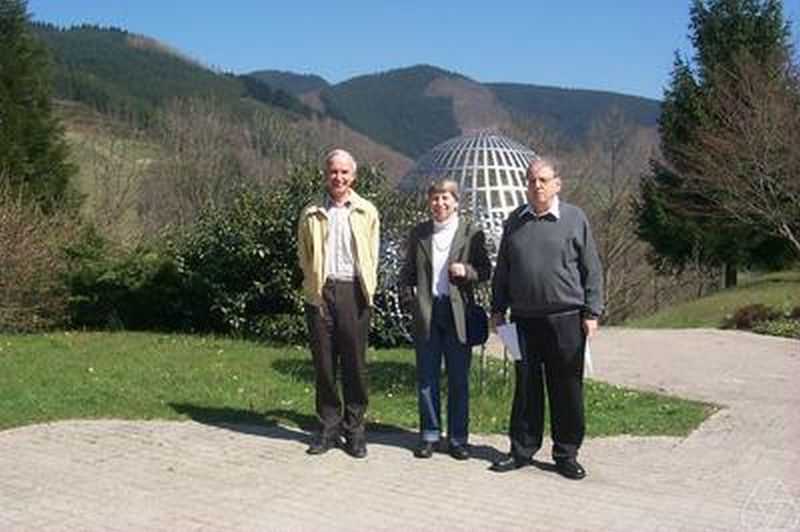 From left: Hermann König, Nicole Tomczak-Jaegermann, Joram Lindenstrauss, Oberwolfach 2003